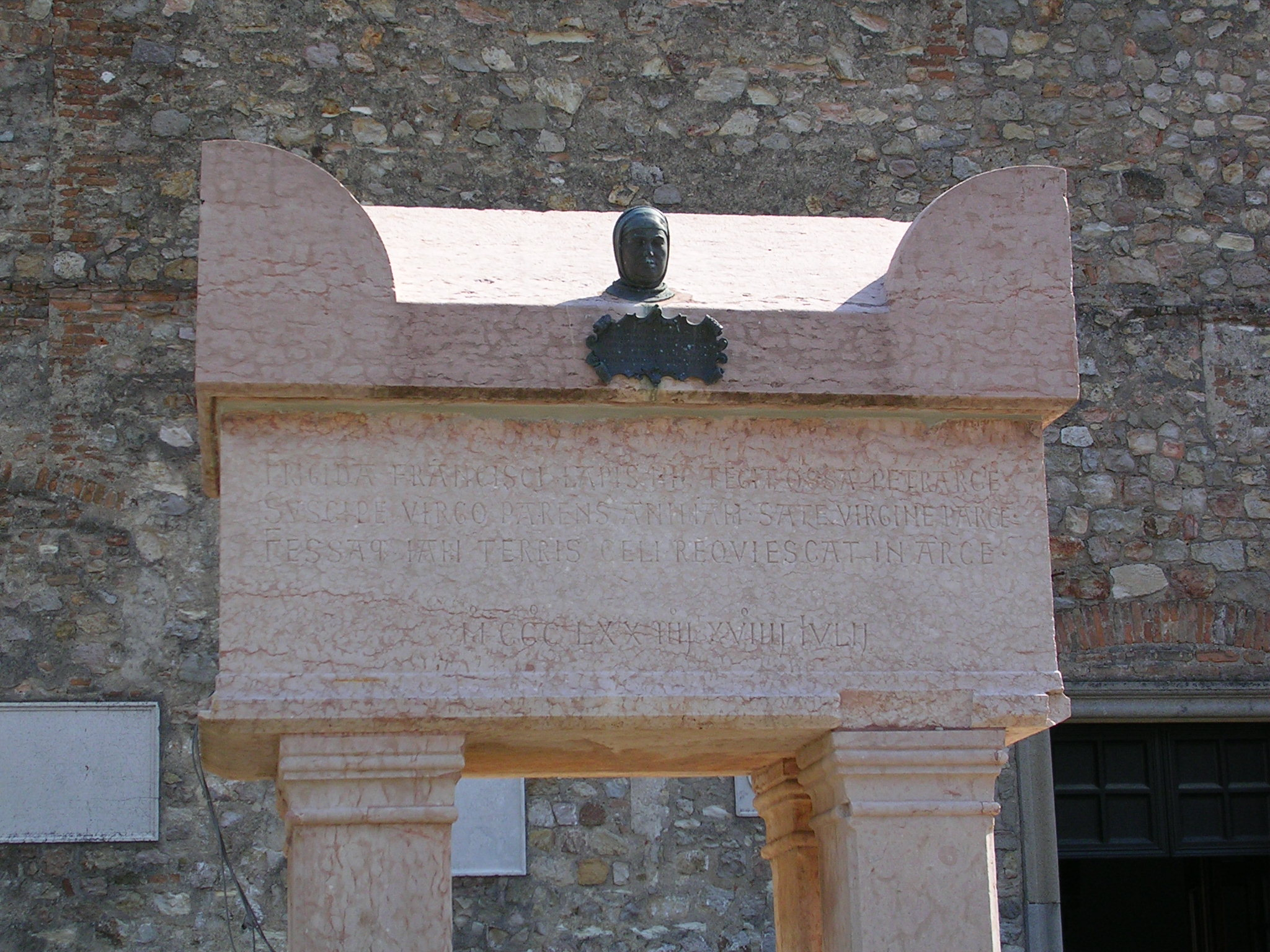 Francesco Petrarca's Tomb at Arquà Petrarca, Veneto, Italy Photo by Caracas1830 (2004)